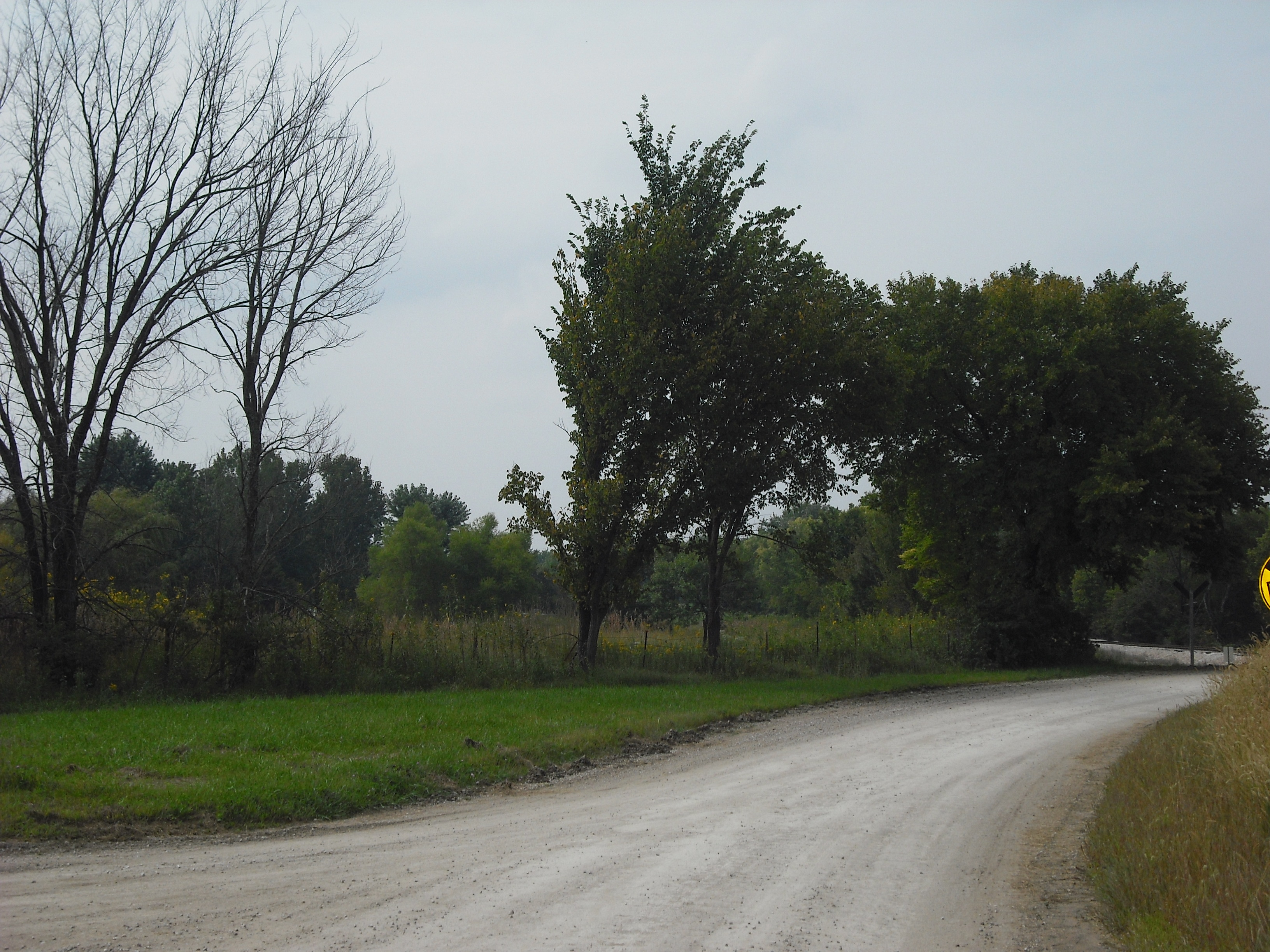 A more recent view of the Prairie City, KS townsite. This view looks west down North 200 across the Midland Railway railroad tracks from the intersection with East 1575 Road.